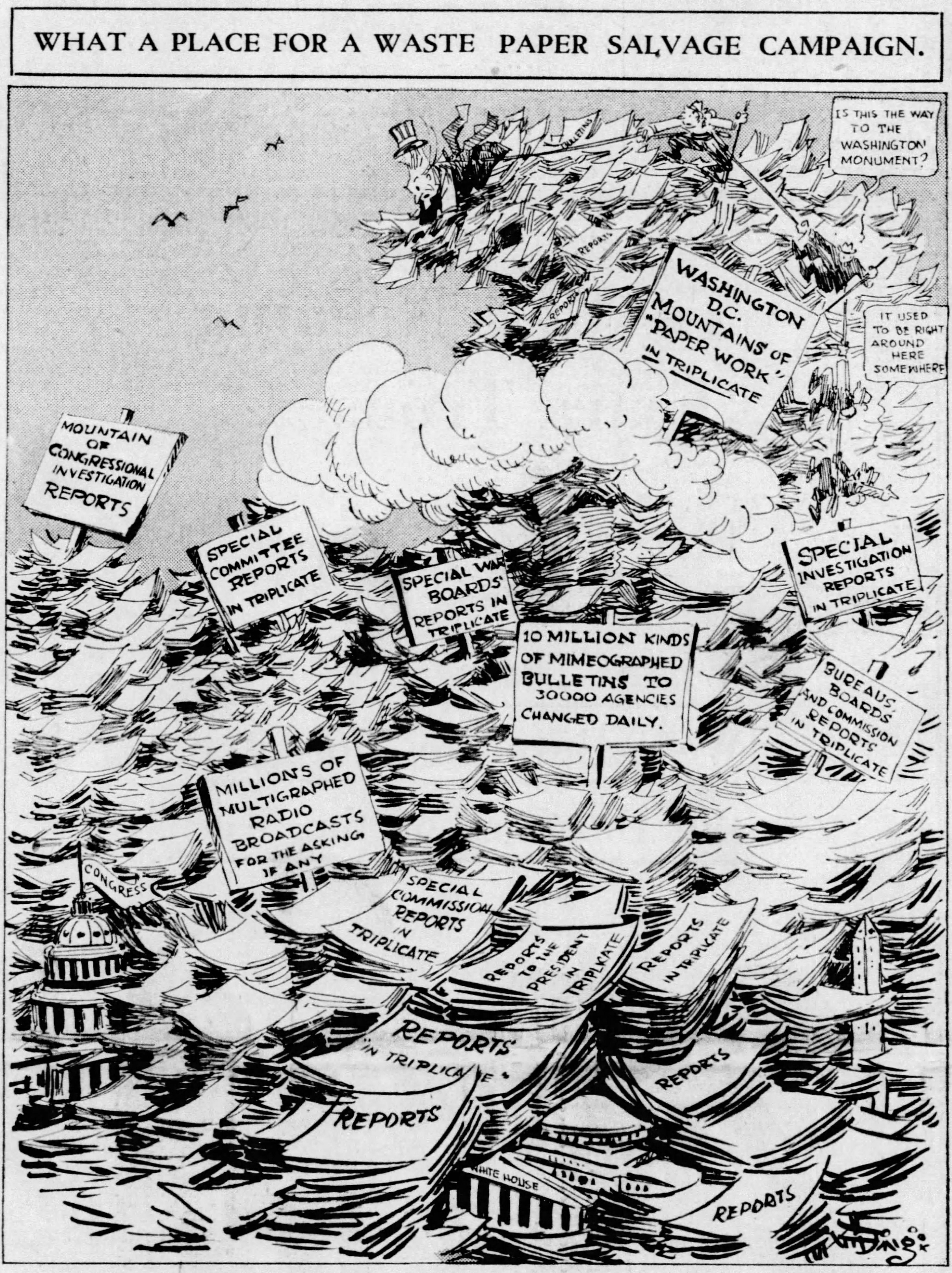 "What a Place For a Waste Paper Salvage Campaign", winner of the 1943 Pulitzer Prize for Editorial Cartooning.